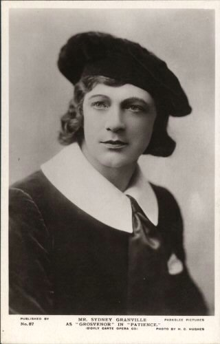 Postcard of Sydney Granville as Grosvenor in Patience, 1920